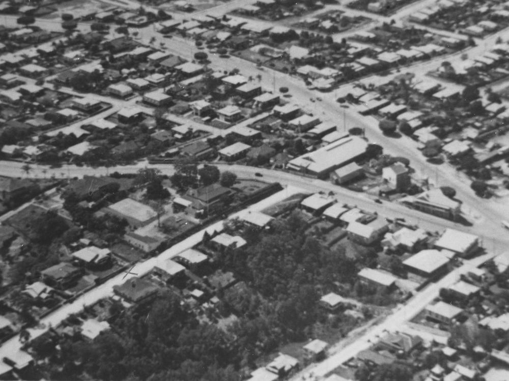 Aerial view of Annerley, Brisbane, ca. 1934. Ipswich Road is in the centre from left to right with Cronin Street and Fanny Street running up to it. Junction Hotel is at the intersection. 26-28 Cronin Street is the large house with the dark roof. The house is now burnt down. (Description supplied with photograph.).